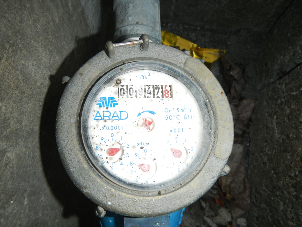 Barangay Bitas is beside neighbor Daan Sarile, Cabanatuan City, Nueva Ecija along Maharlika Highway connected by the Bitas Bridge ID B00128LZ Station K0117+189 25 Meters 14 Tons limit with Arad Water metering Arad Group - Water Metering Solutions & Services, and San Vicente Ferrer Chapel with Flores de Mayo Procession Festival ongoing.